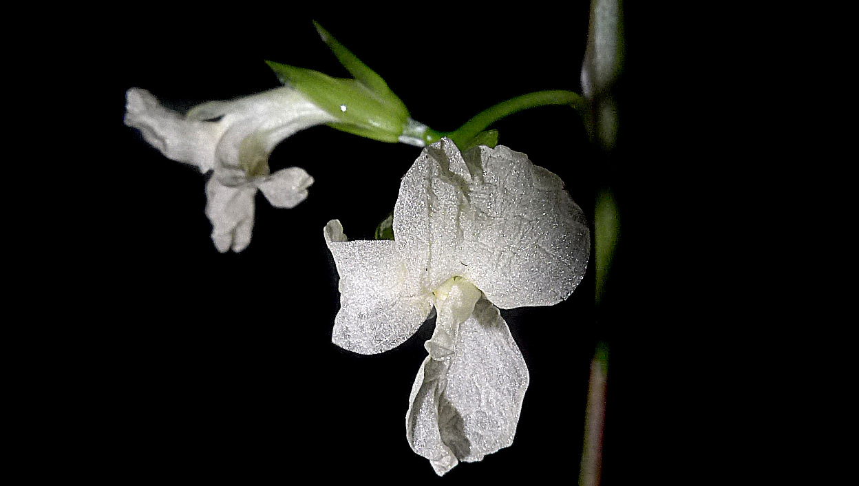 At its nocturnal anthesis...